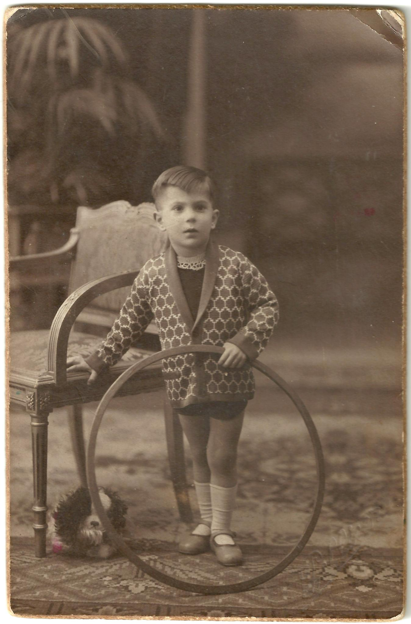 Another lovely image picked up on a recent trip to Barcelona.